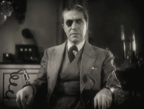 Arthur Edmund Carewe in Doctor X (1932) - trailer (cropped screenshot)